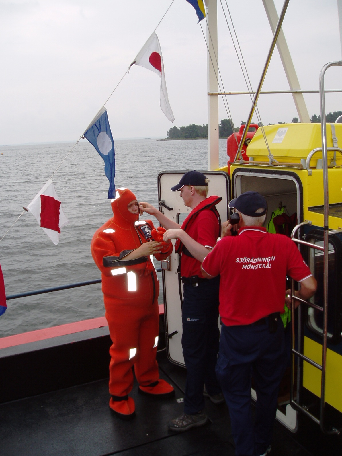 Diver at Pataholm, Sweden, protecting equipment